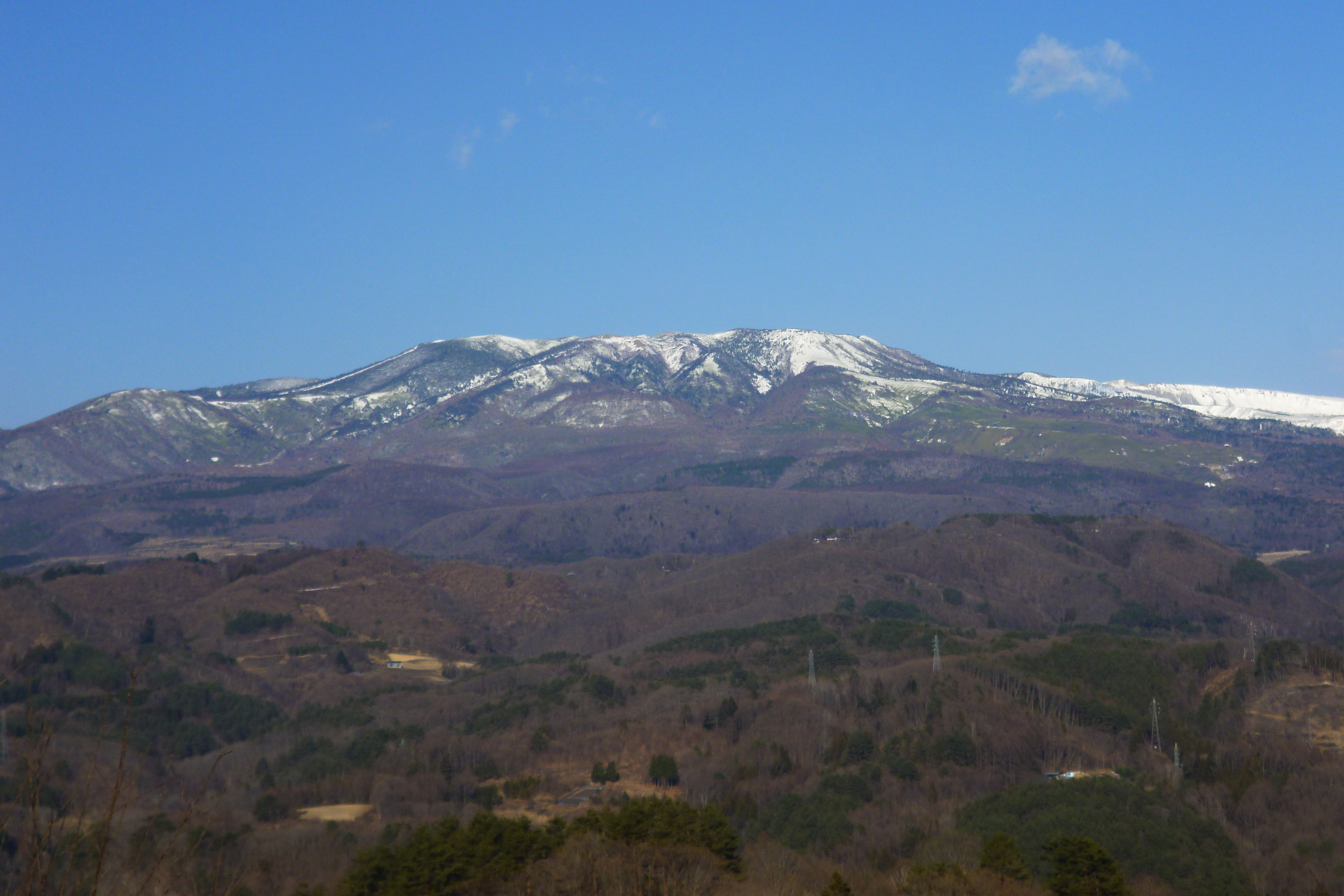 The southeast face of the Mount Kusatsu-Shirane in Kantō region, Japan. A view from the road "National Route 146" in Naganohara, Gunma.